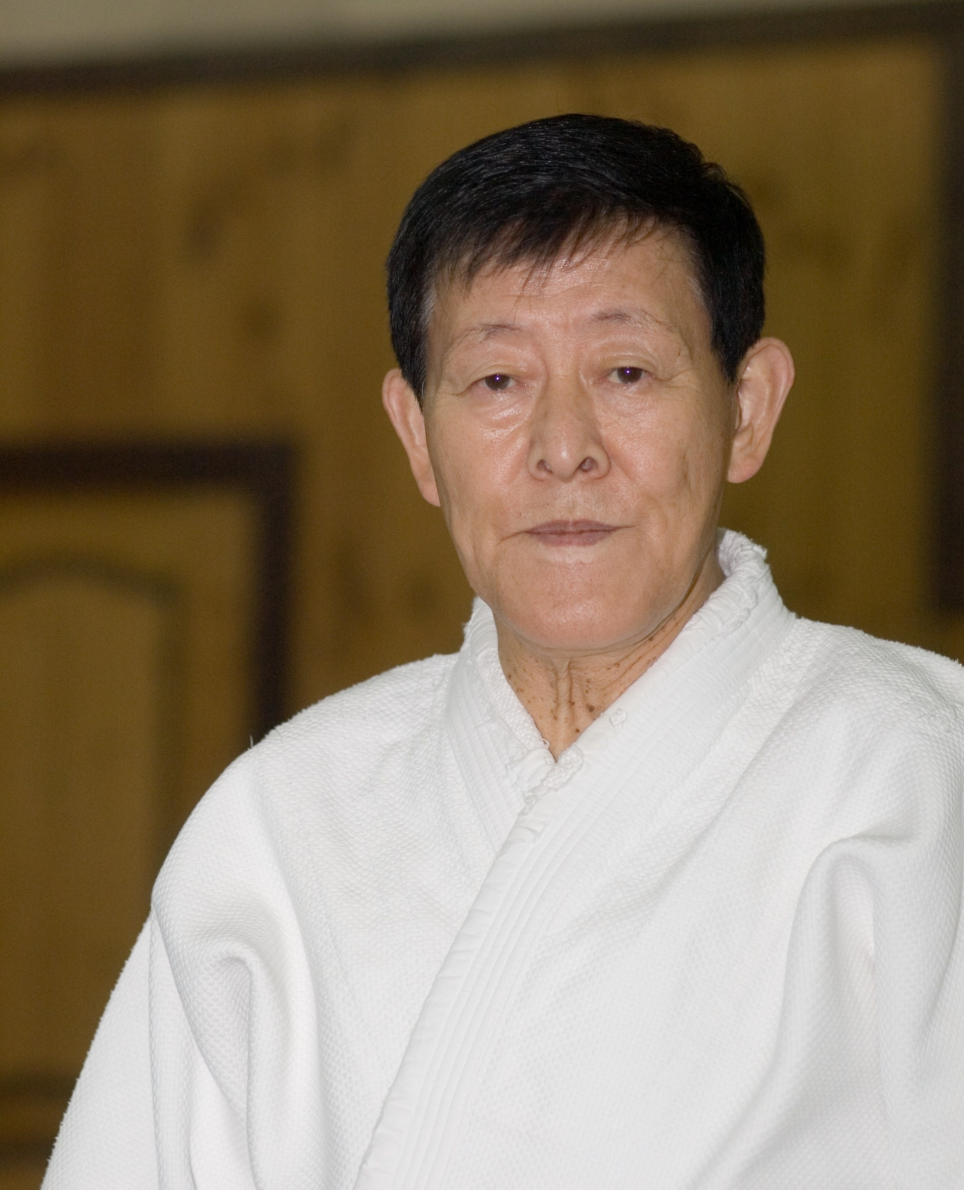 Kyoichi Inoue — Hanshi, 9-th dan Yoshinkan Aikido, 2-nd Kancho Yoshinkan. This photo was shot in Moscow during Yoshinkan Aikido Seminar, 24 December 2007.